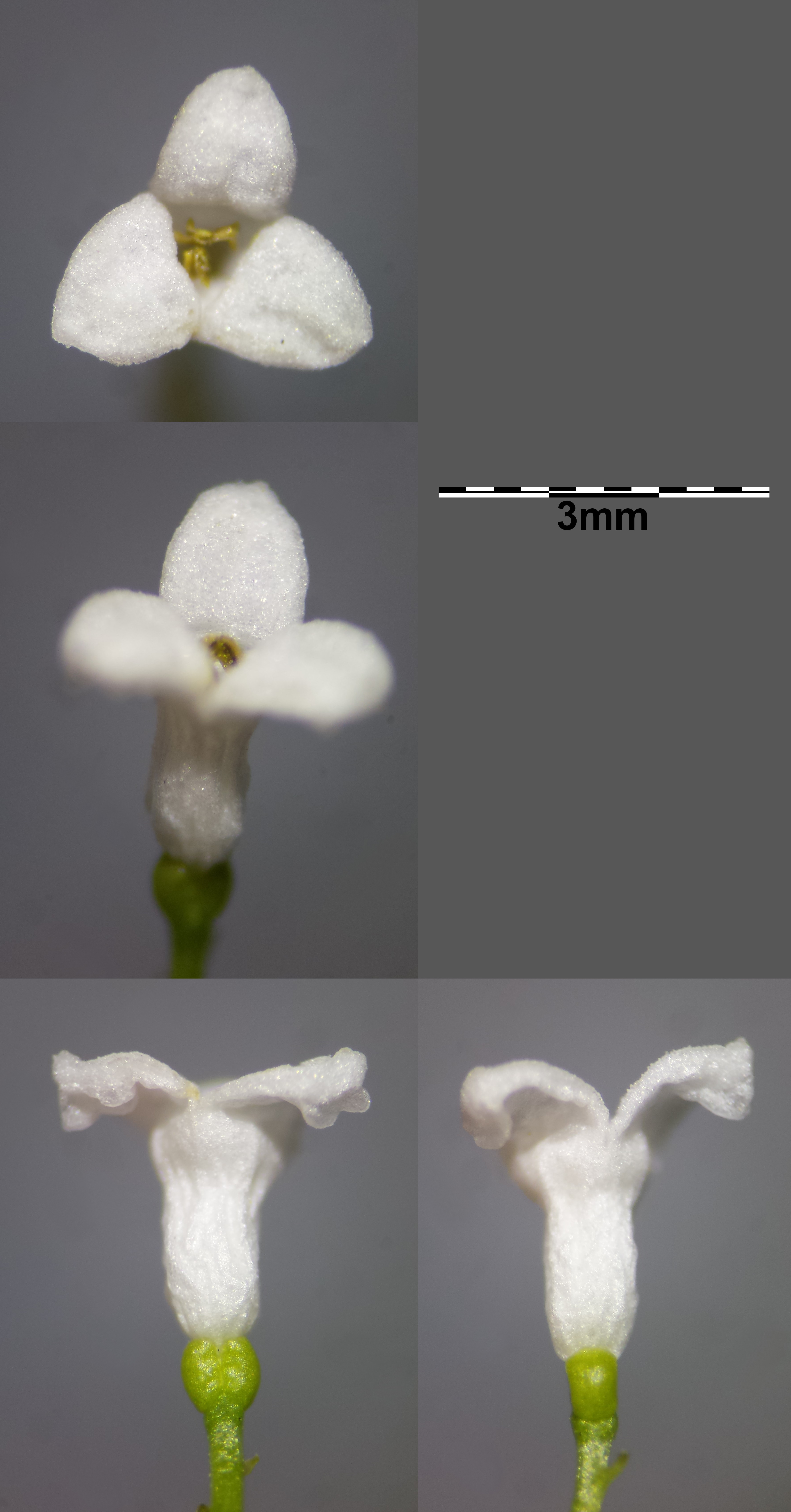 Flower Taxonym: Asperula tinctoria ss Fischer et al. EfÖLS 2008 ISBN 978-3-85474-187-9 Location: Steinberg near Niederhollabrunn, district Korneuburg, Lower Austria - ca. 375 m a.s.l. Habitat: semi-dry grassland